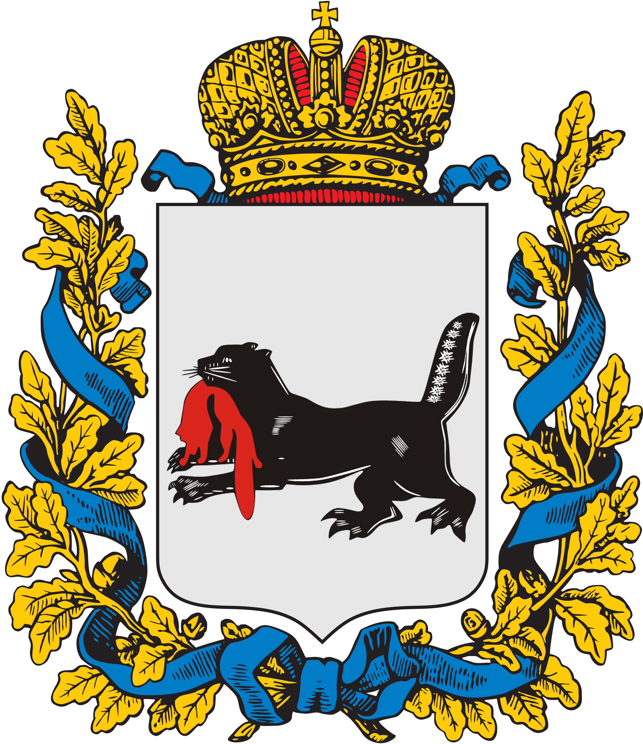 Irkutsk gubernia (Russian empire), coat of arms